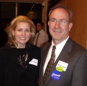 Picture of the Appels at a Boswell event.